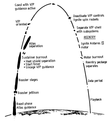 Project FIRE: Trajectory